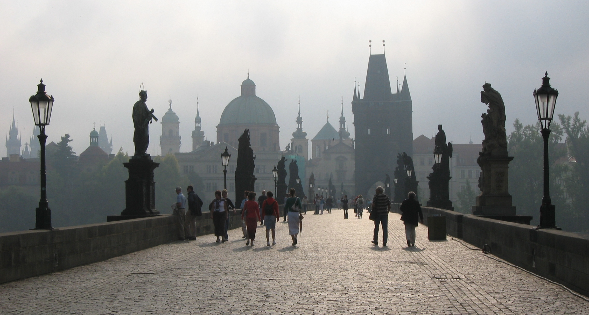 Charles Bridge in Prague.